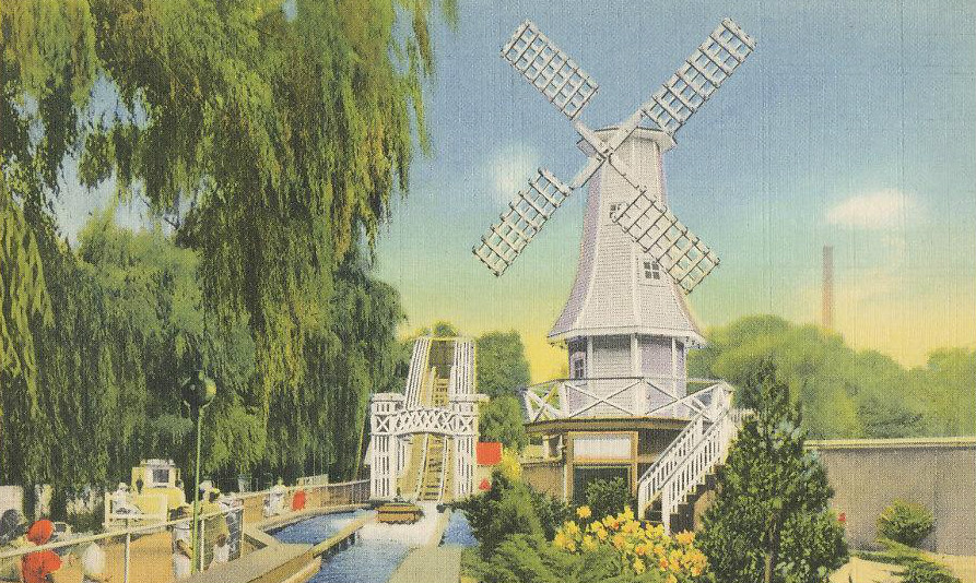 Postcard depiction of the Mill Chute ride at Hersheypark.